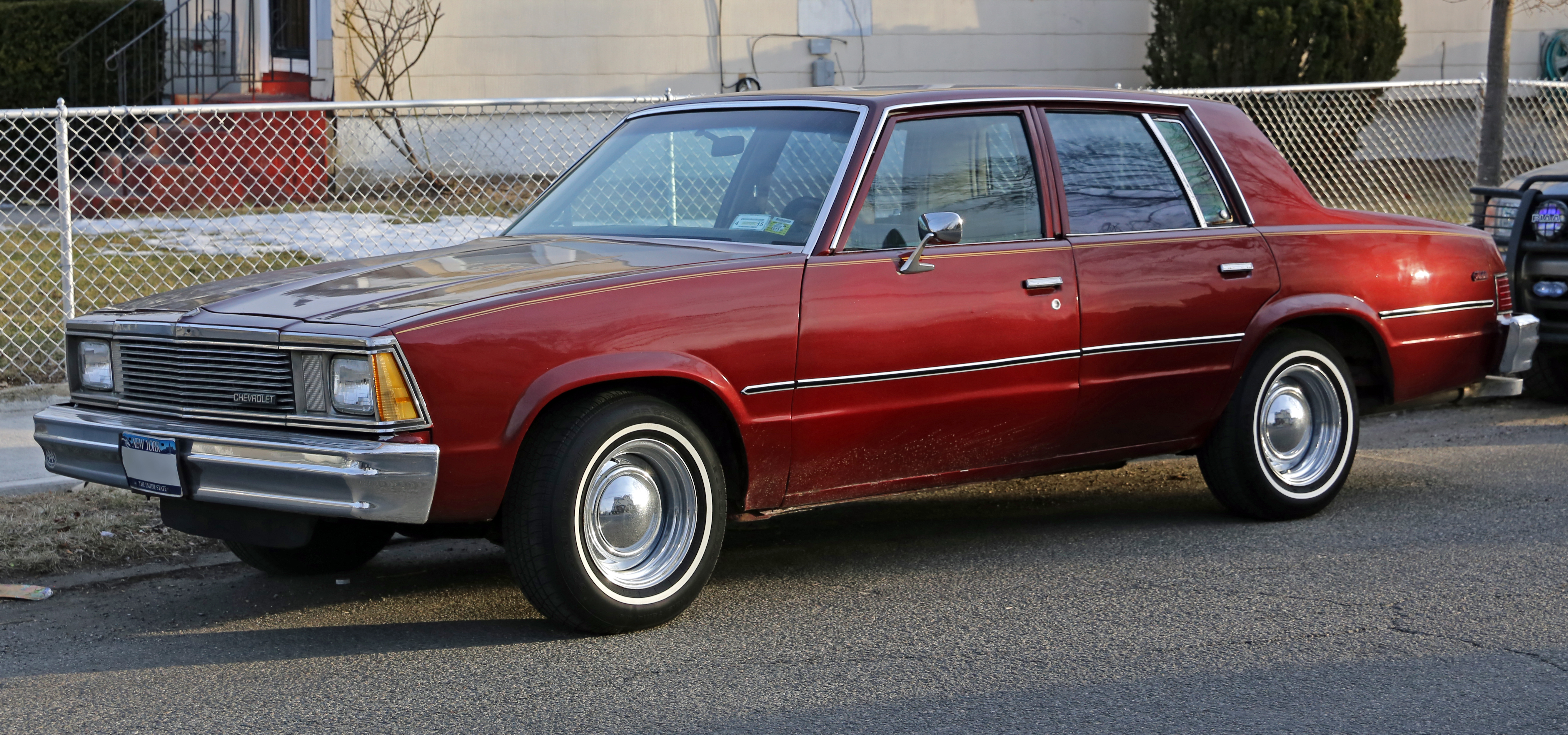 1981 Chevrolet Malibu four-door sedan with the 3.8 litre V6 engine; built in Arlington, TX.